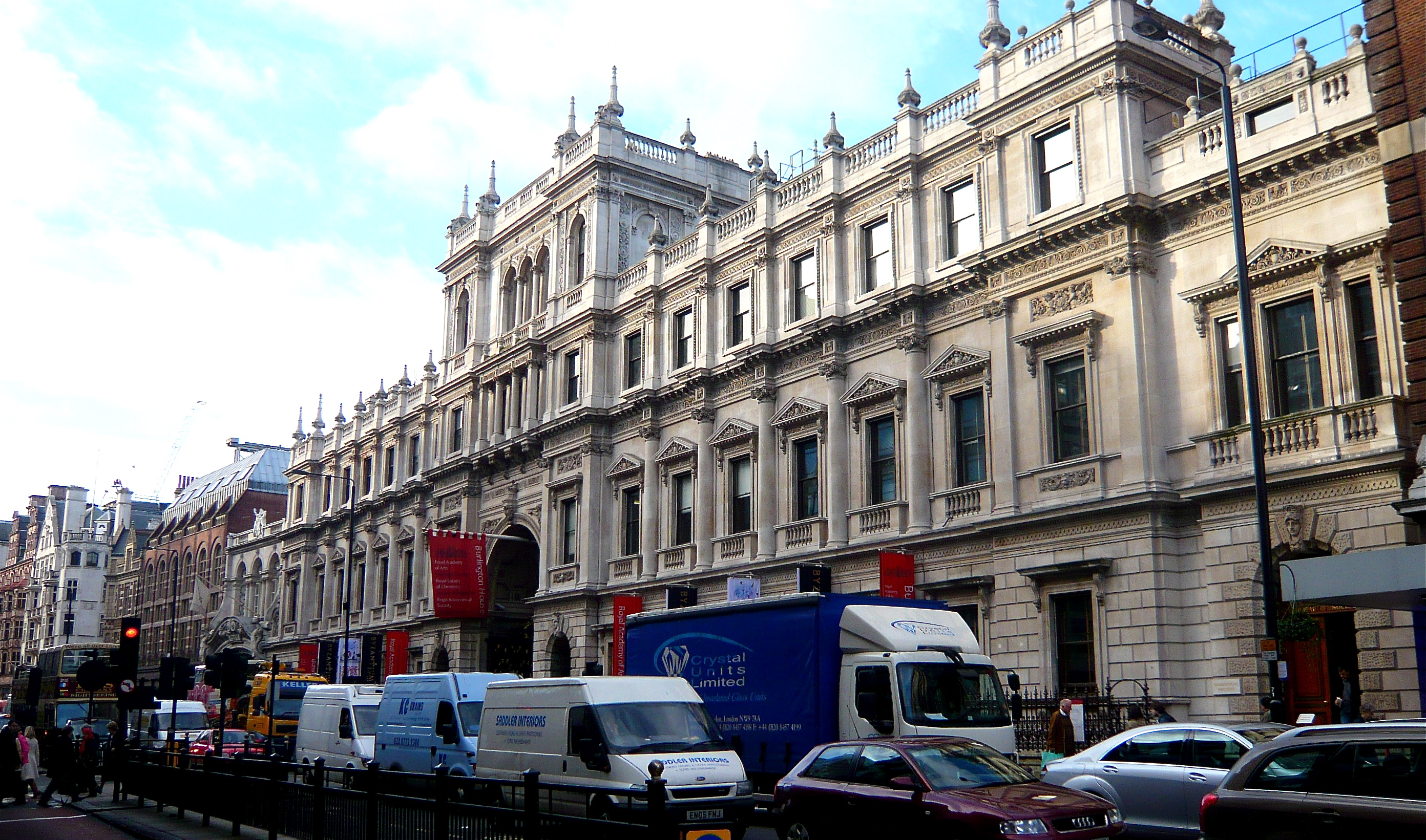 Piccadilly side of Burlington House. A very similar view of Burlington House can be seen in the 1985 film "Murder with Mirrors", starring Helen Hayes as miss Jane Marple.